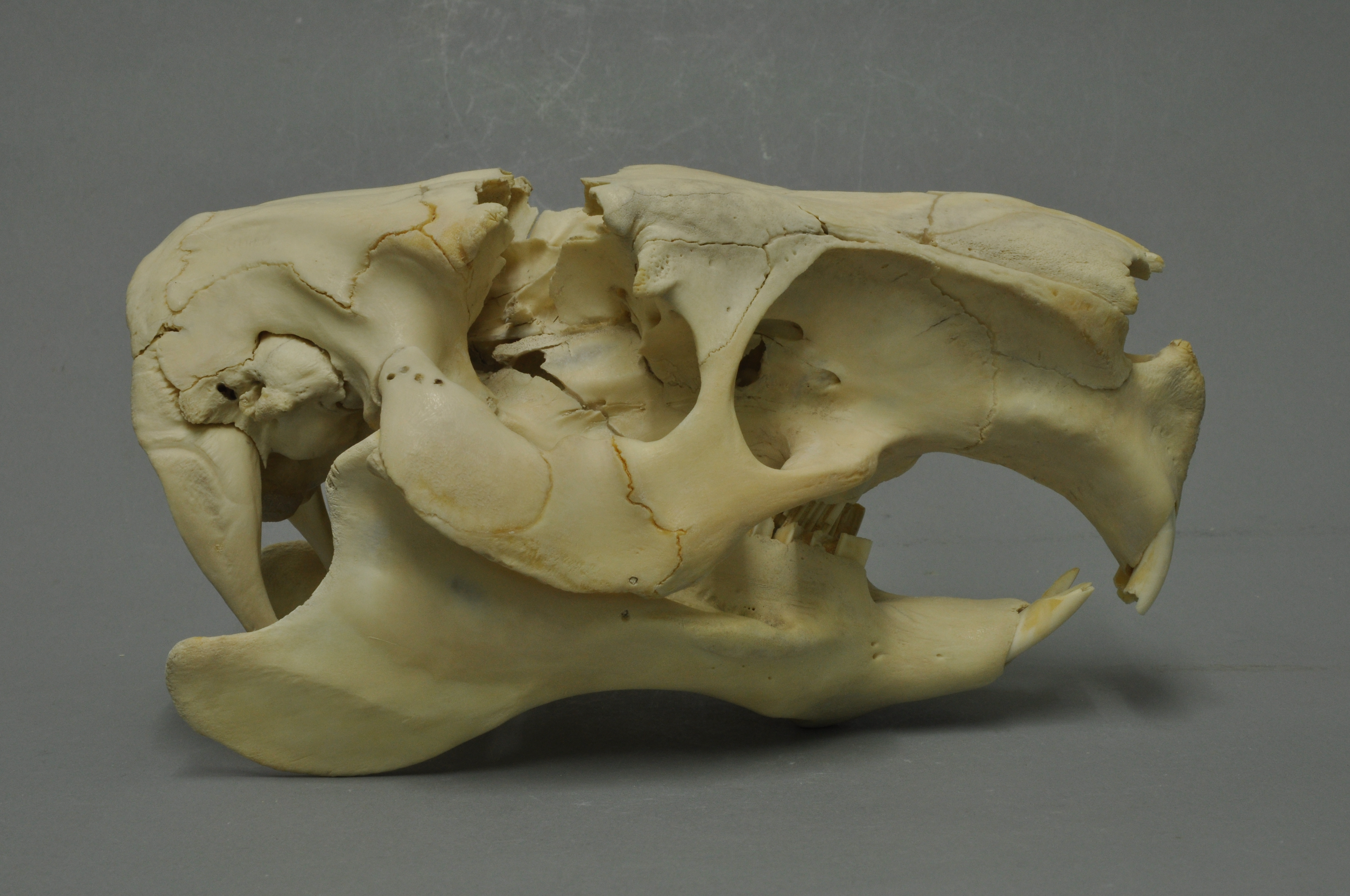 Capybara Hydrochoerus hydrochaeris, skull, Coll. Museum Wiesbaden